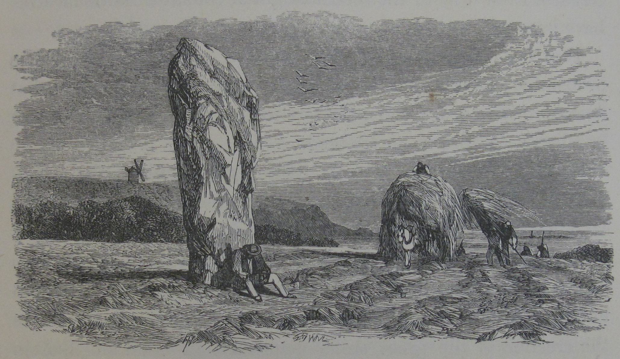 Illustration from The Channel Islands, 1862, David Thomas Ansted & Robert Gordon Latham – A menhir... of Guernsey""""